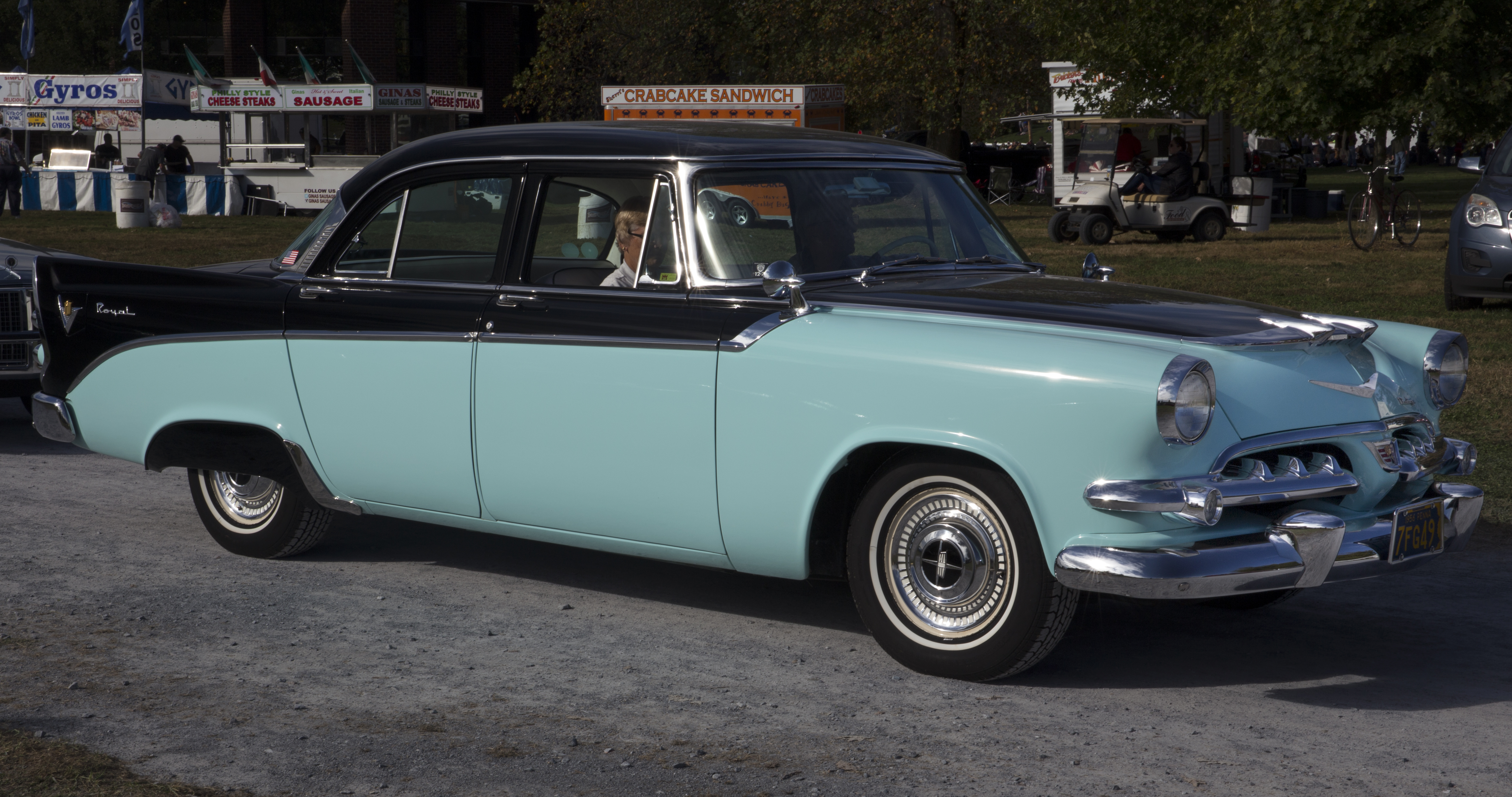 A 1956 Dodge Royal four-door sedan (D63-2) trying to exit the show area at Hershey 2019.